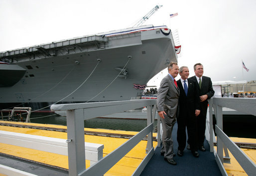 President George W. Bush, father President George H. W. Bush and brother Florida Governor Jeb Bush depart at the conclusion of the Christening Ceremony for the George H.W. Bush (CVN 77) in Newport News, Virginia, Saturday, Oct. 7, 2006. White House photo by Eric Draper